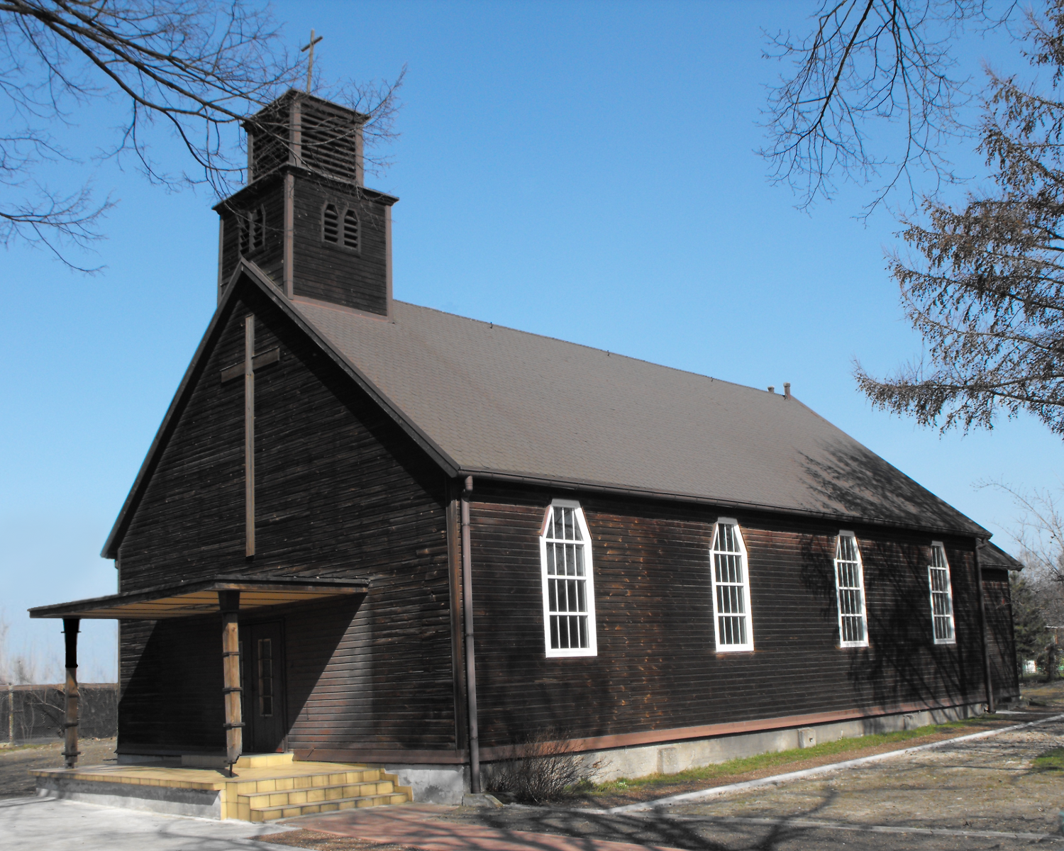 Protestant church in Mikulczyce